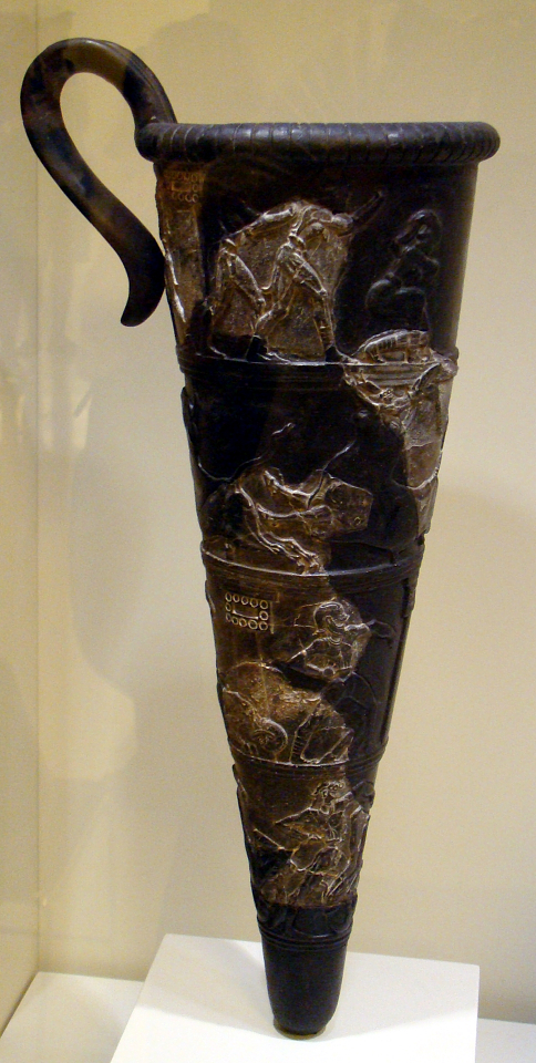 Conical stone rhyton of serpentine from Agia Triada. Herakleion Archeological Museum